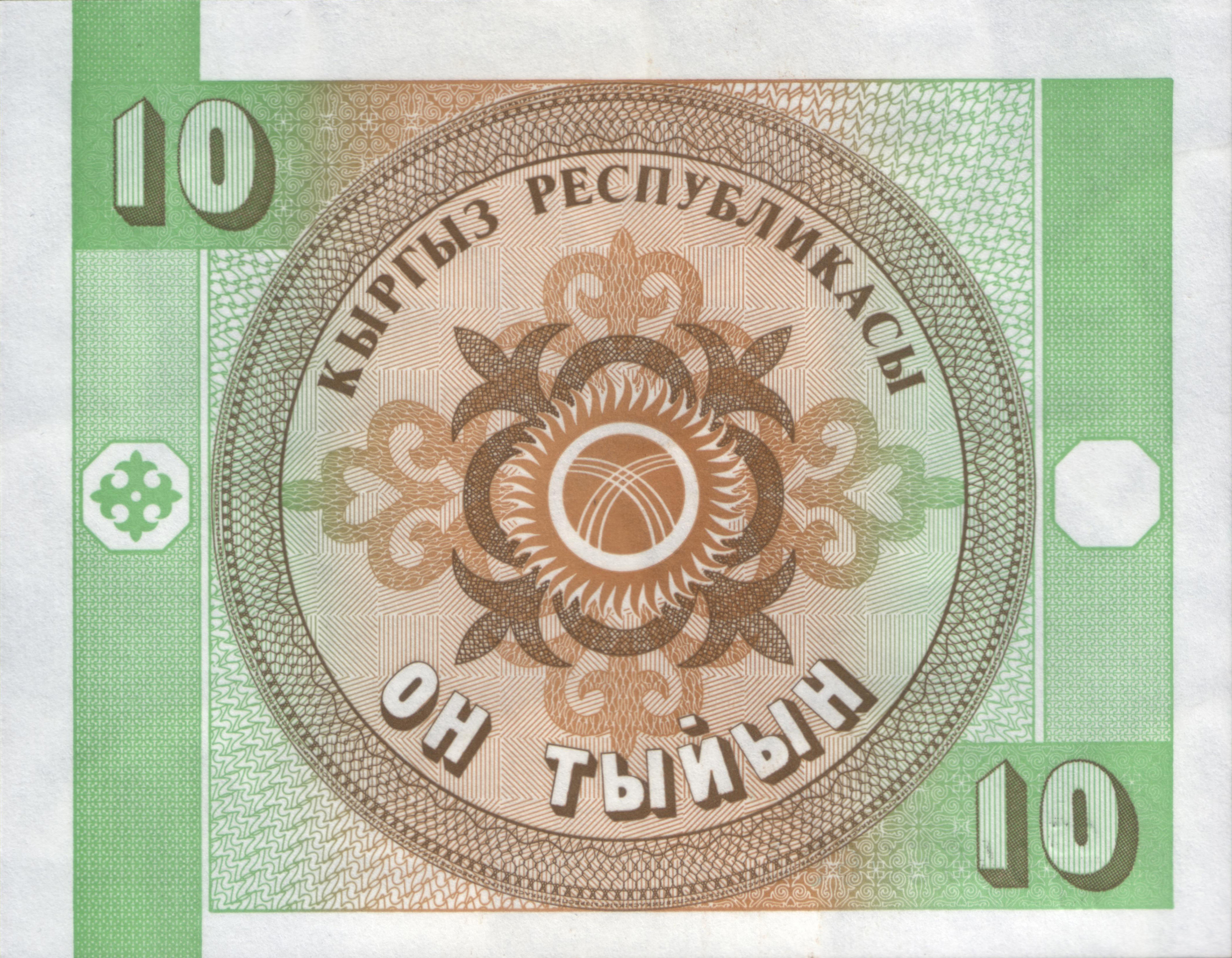 10 tiyin of Kyrgyzstan (1993)